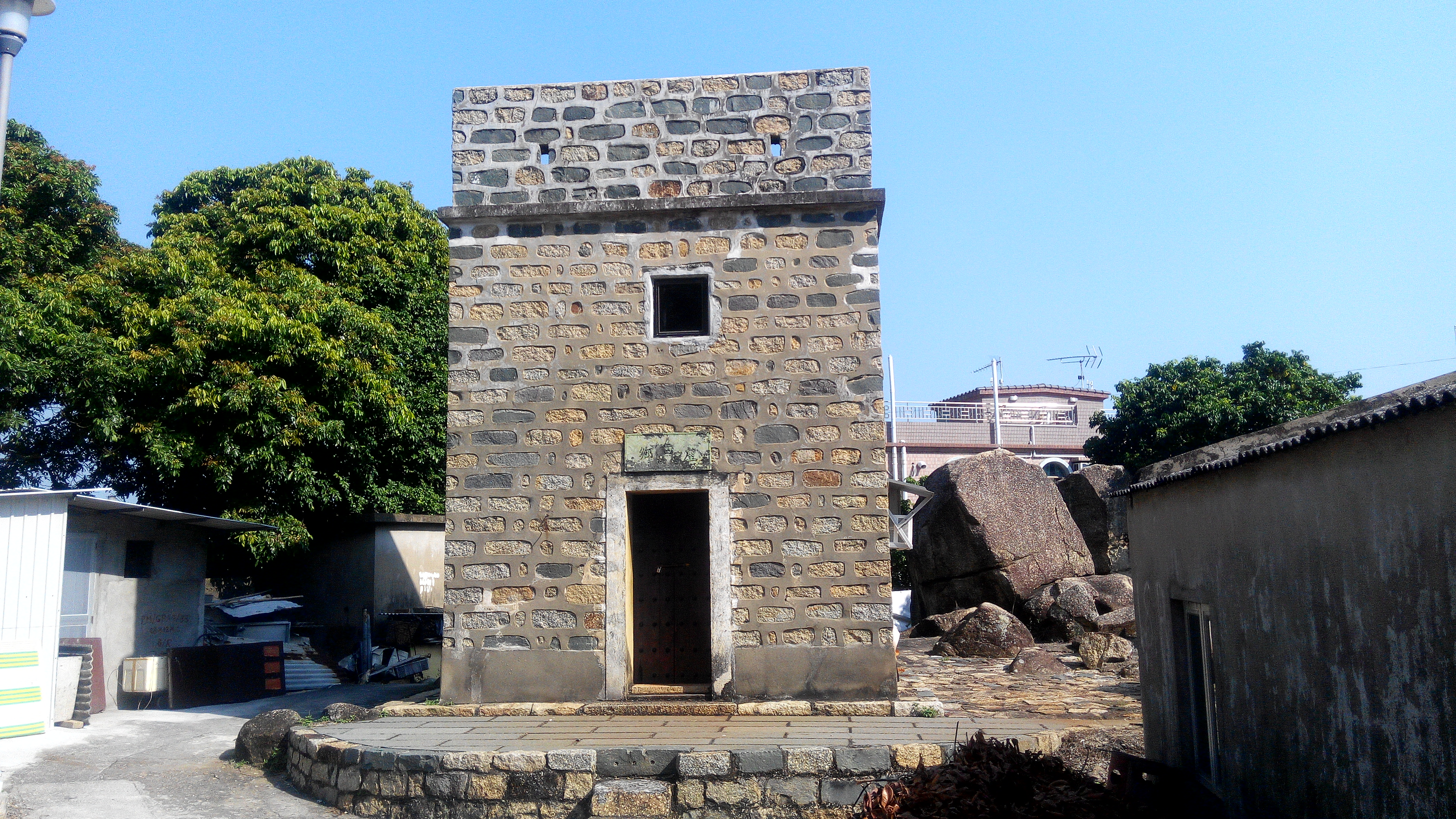 Pak Mong Tsuen Watchtower, Tung Chung